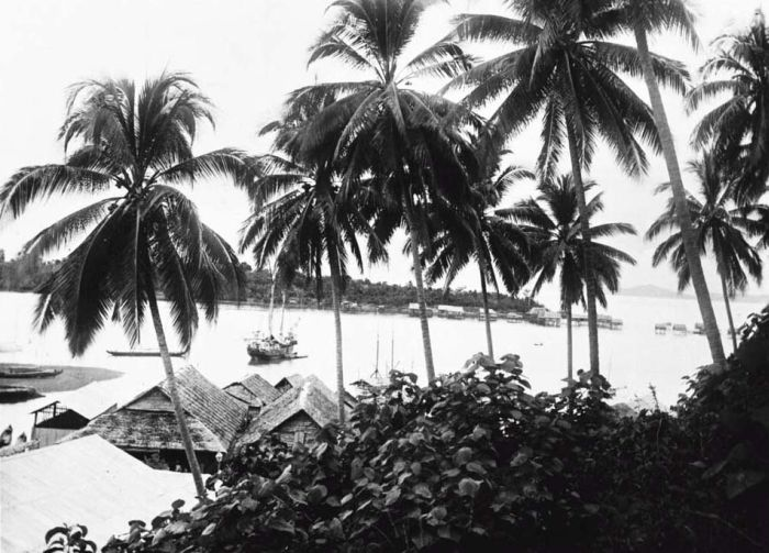 View over Pagimana